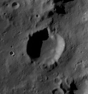 LROC WAC image (No. M119067495ME).